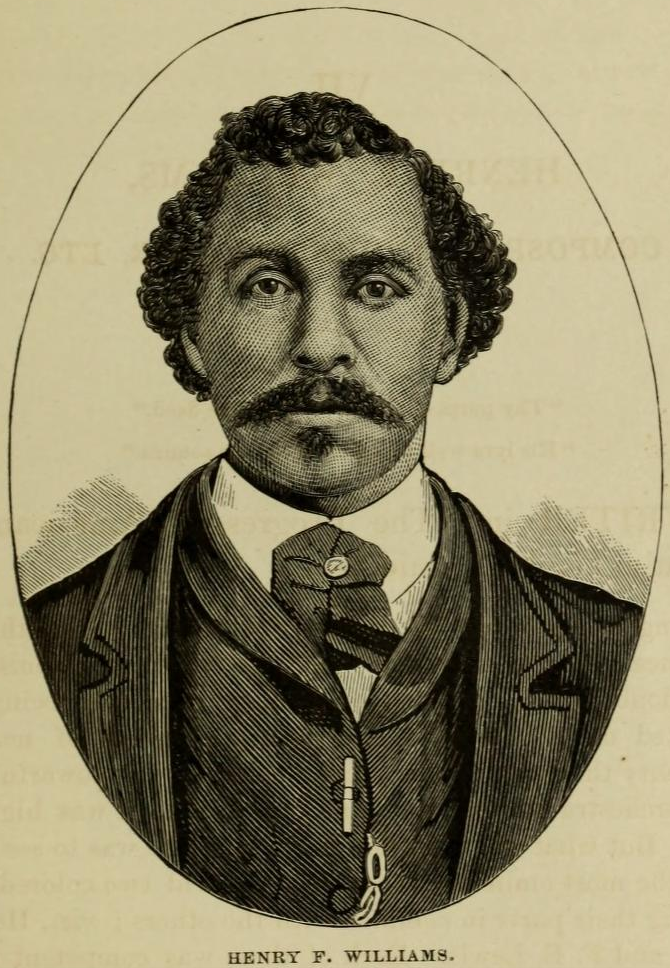 Image of Williams from 1881